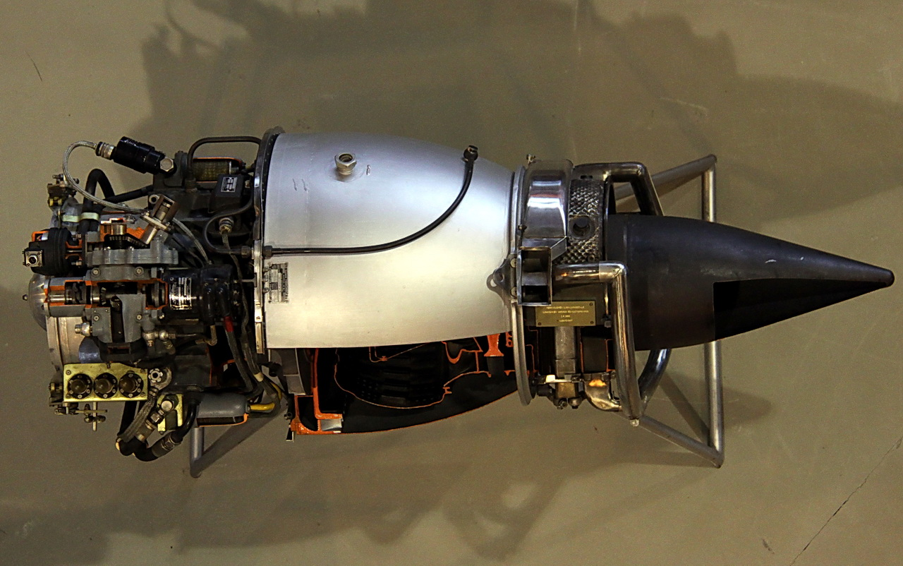 Turbomeca Marboré II F 3 in Aviation Museum of Central Finland.